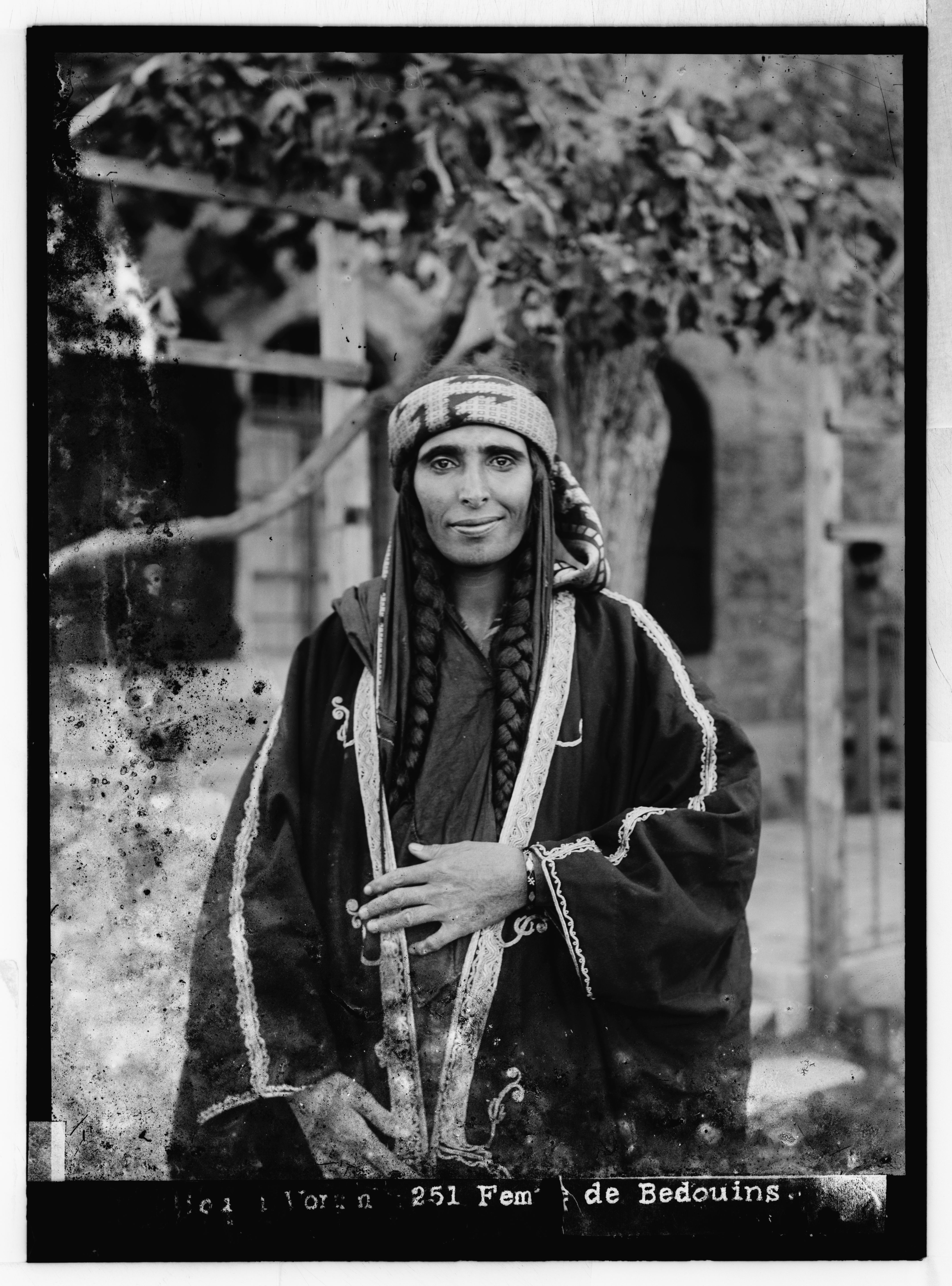 Bedoin woman from Palestine